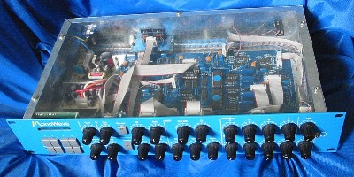 Till "Qwave" Kopper